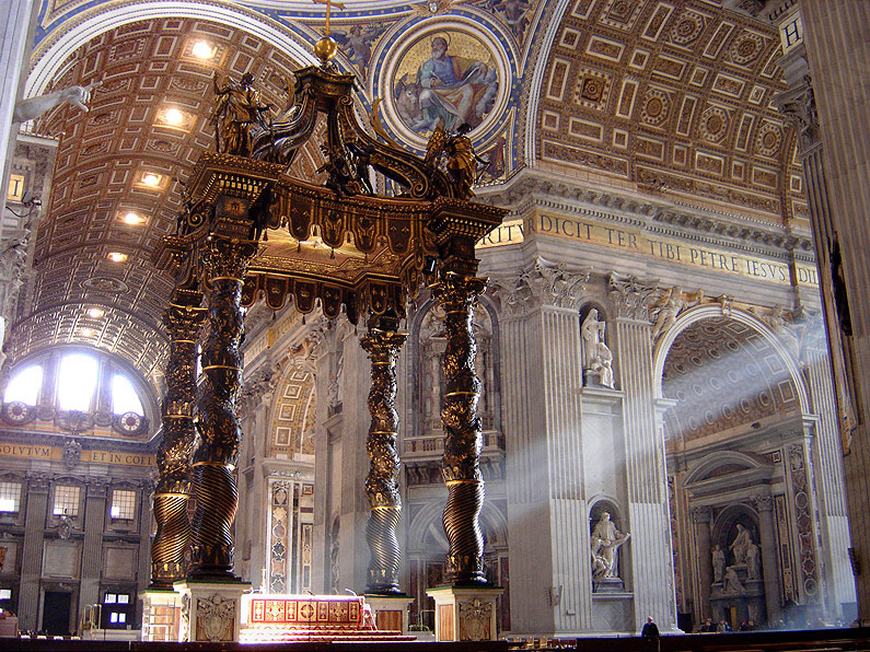 Bernini's baldacchino, inside Saint Peter's Basilica, Vatican City.